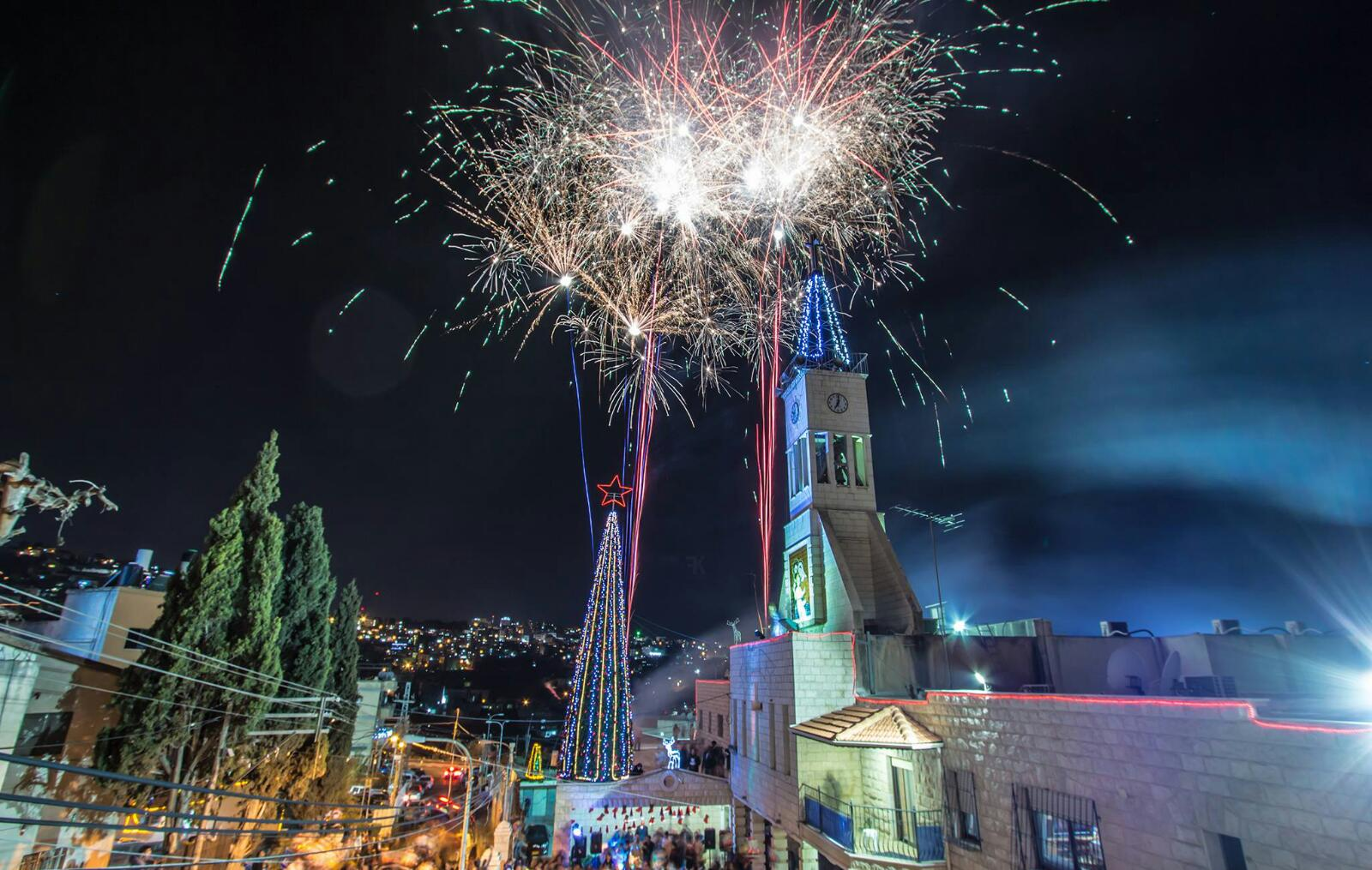 Christmas in Reineh